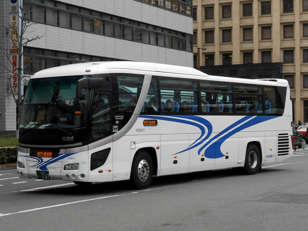 Honshi Kaikyo bus Hino S'ELEGA (PKG-RU1ESAA)highwaybus "Awa-express Kyoto"(Tokushima-Kyoto)